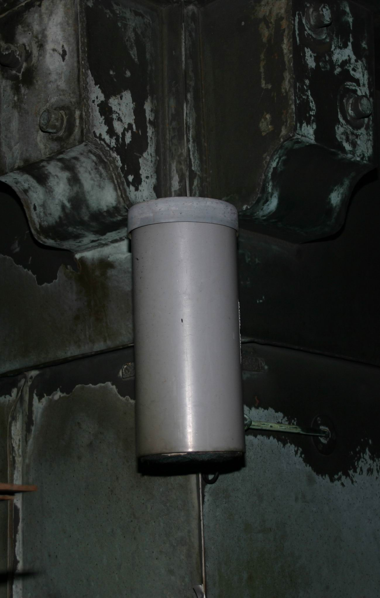 The outdoor microphone next to the bells in the tower of Copenhagen city hall. The microphone used to be used for radio transmissions at noon.